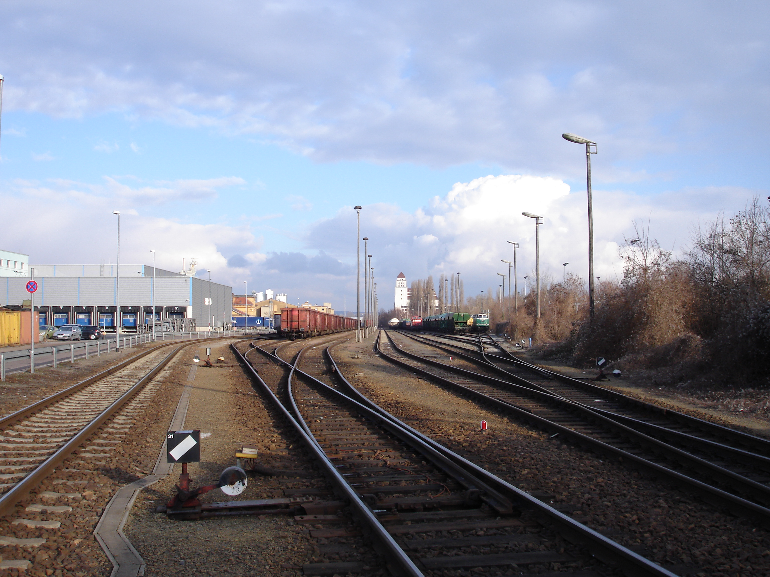 station Dresden Hafen, Germany